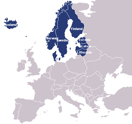 Geographic situation of NB8 (Nordic Baltic Eight) countries